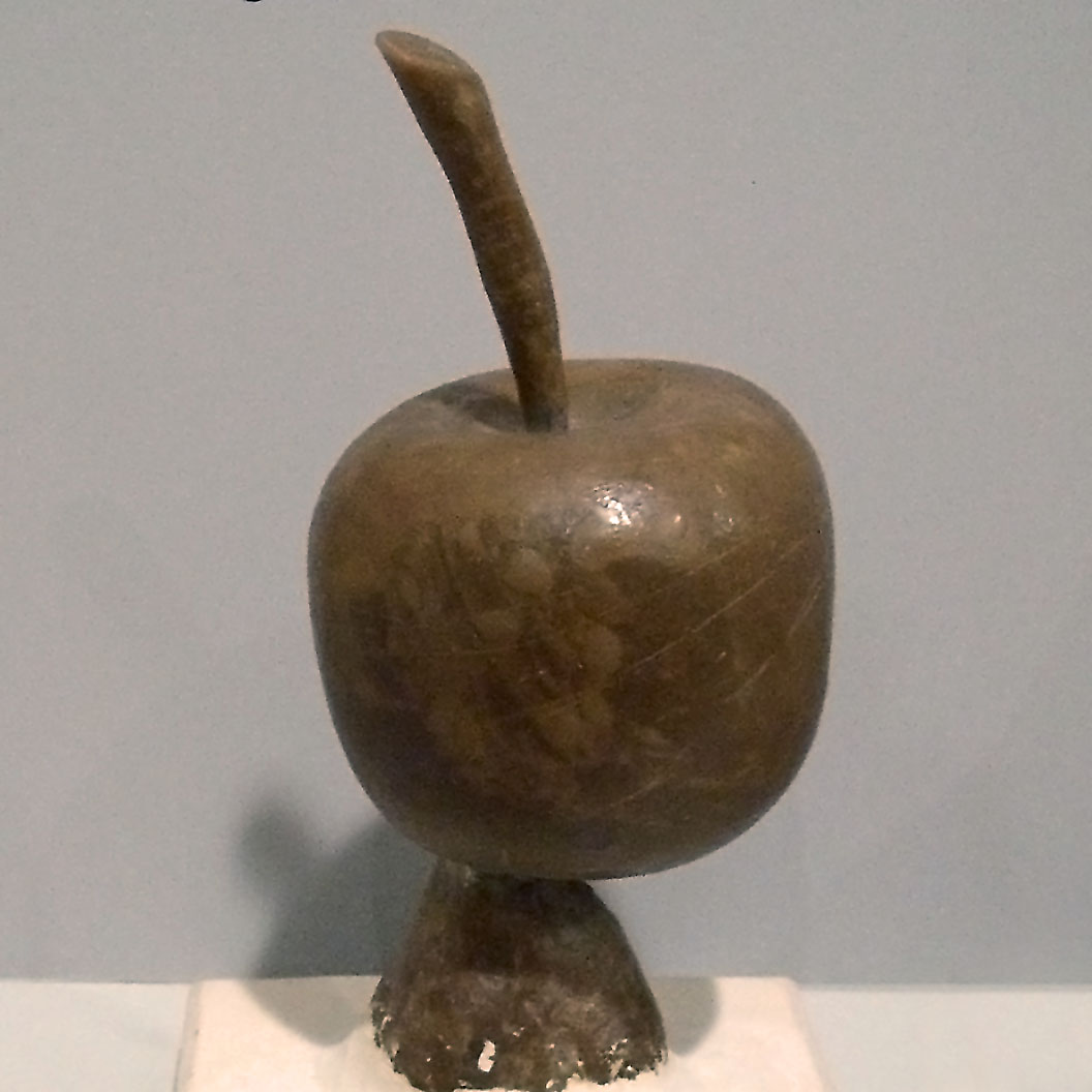 Lost Wax Casting: original artwork of an apple from wax. Step 1 of the lost-wax bronze casting process